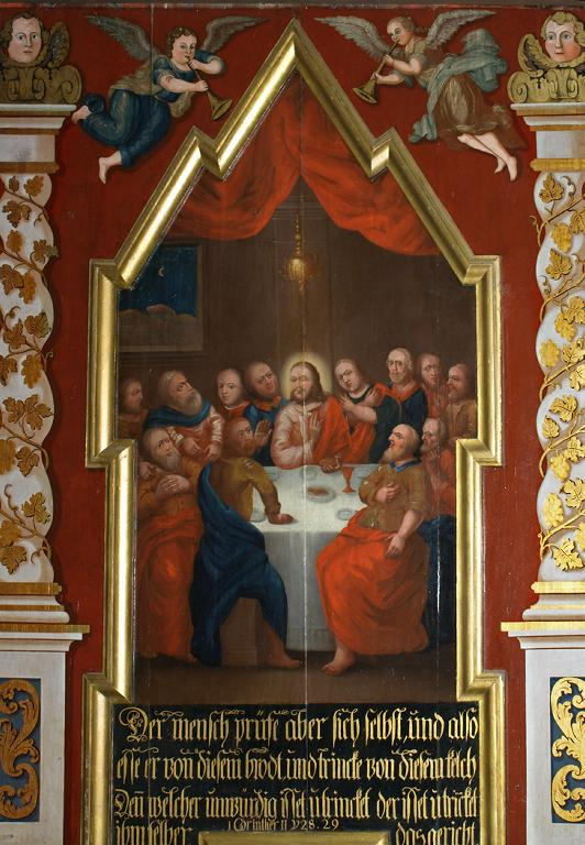 Morsum (Sylt), Slesvic-Holstein (Germany): church, painting, photo 2008